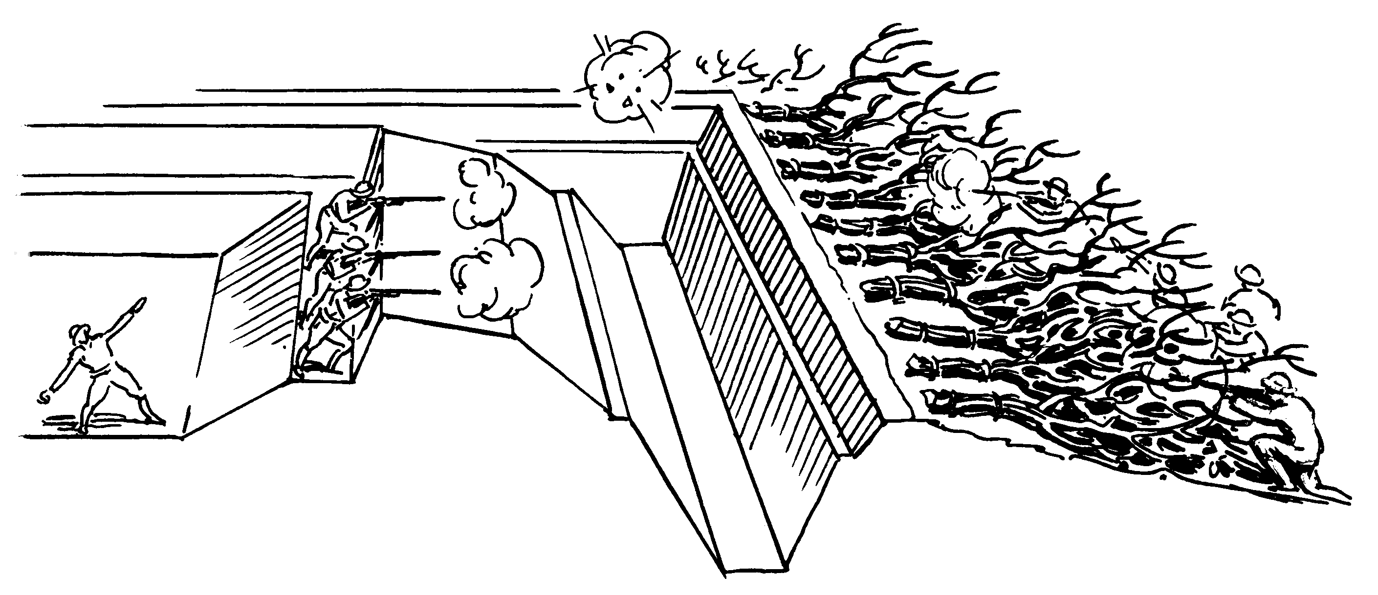 Line art drawing of an abatis, an obstacle formed of the branches of trees laid in a row, with the tops directed towards the enemy.